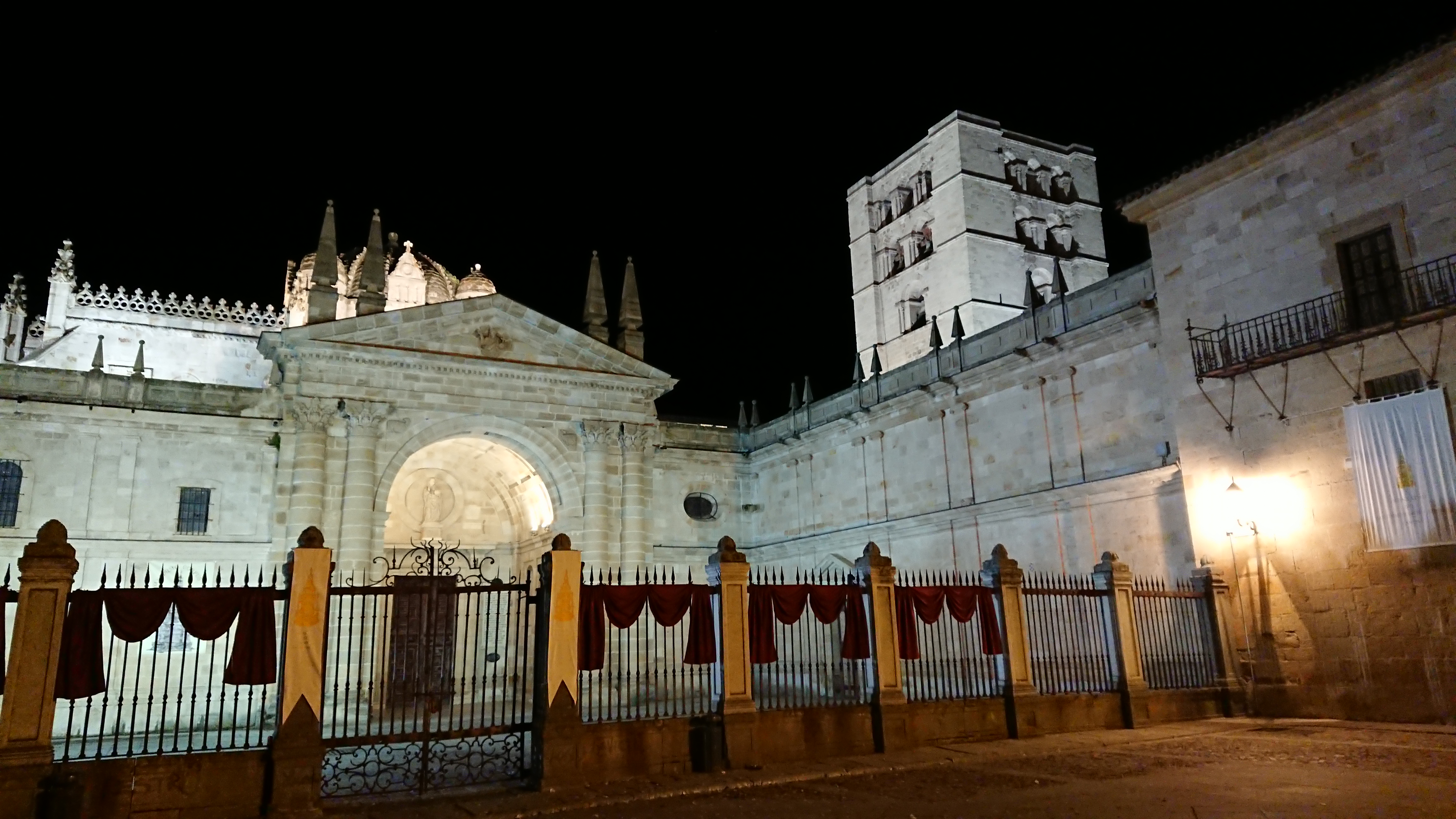 Zamora Cathedral, Spain